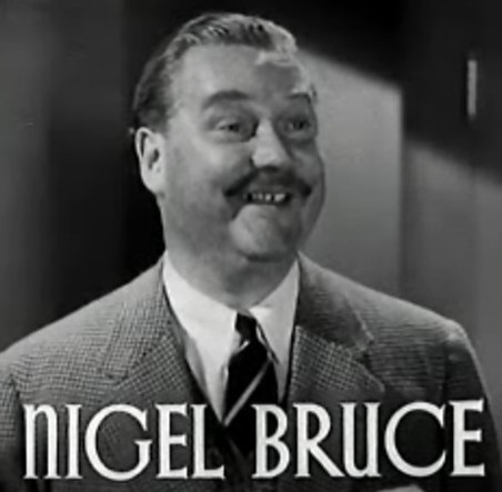 Cropped screenshot of Nigel Bruce from the trailer for the film The Last of Mrs. Cheyney